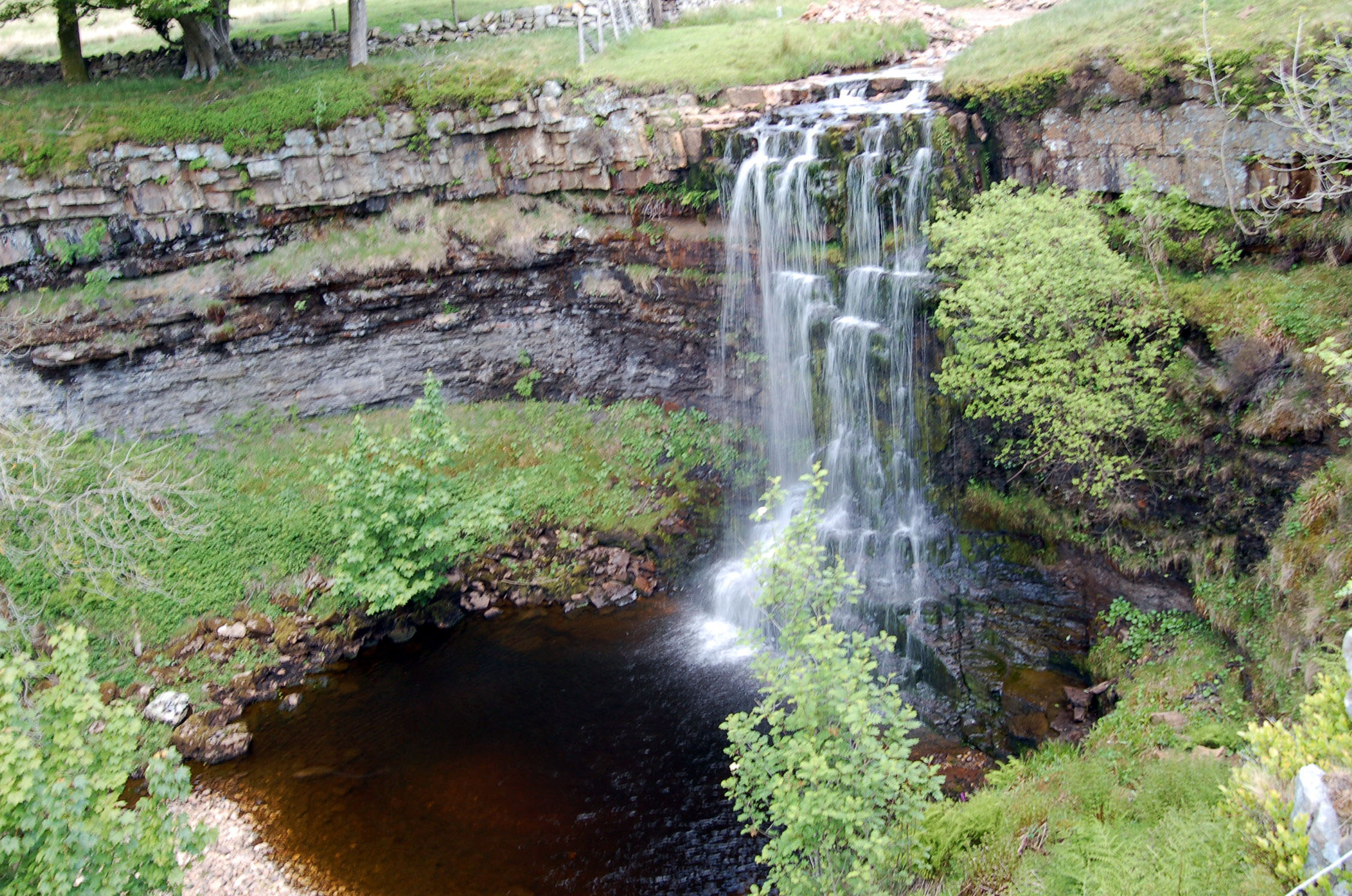 Hell Gill Force, Mallerstang